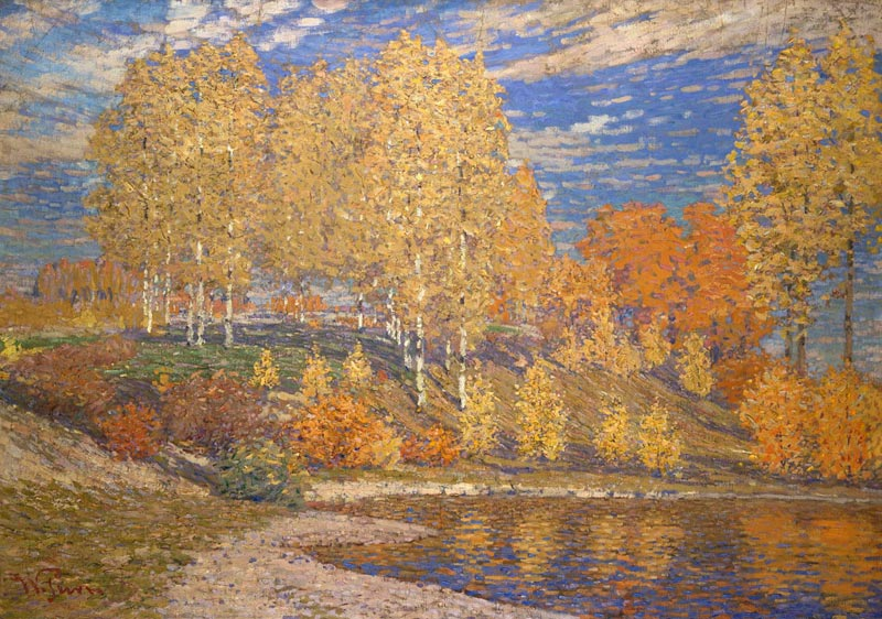 Vilhelms Purvitis Autumn sun (1909)